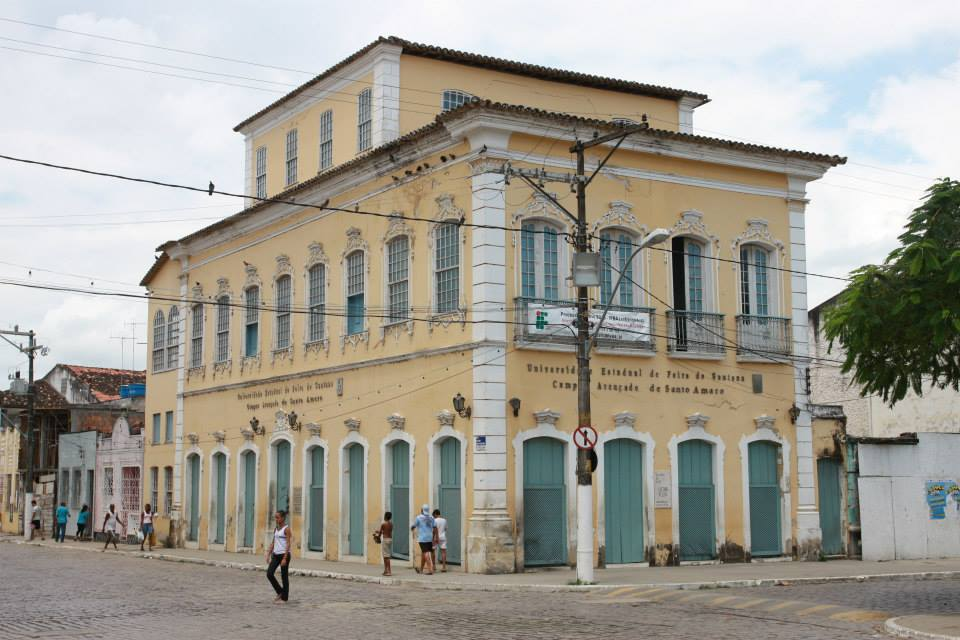 Where it was signed the first official document by the Independence of Brazil